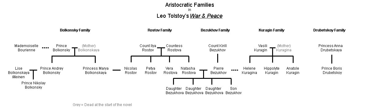 Character tree for Leo Tolstoy's War & Peace